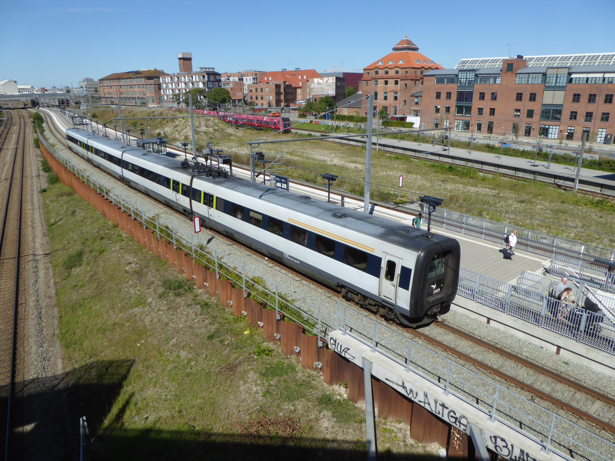 Electric multiple unit DSB IR4 05 at Ny Ellebjerg Station in Copenhagen.